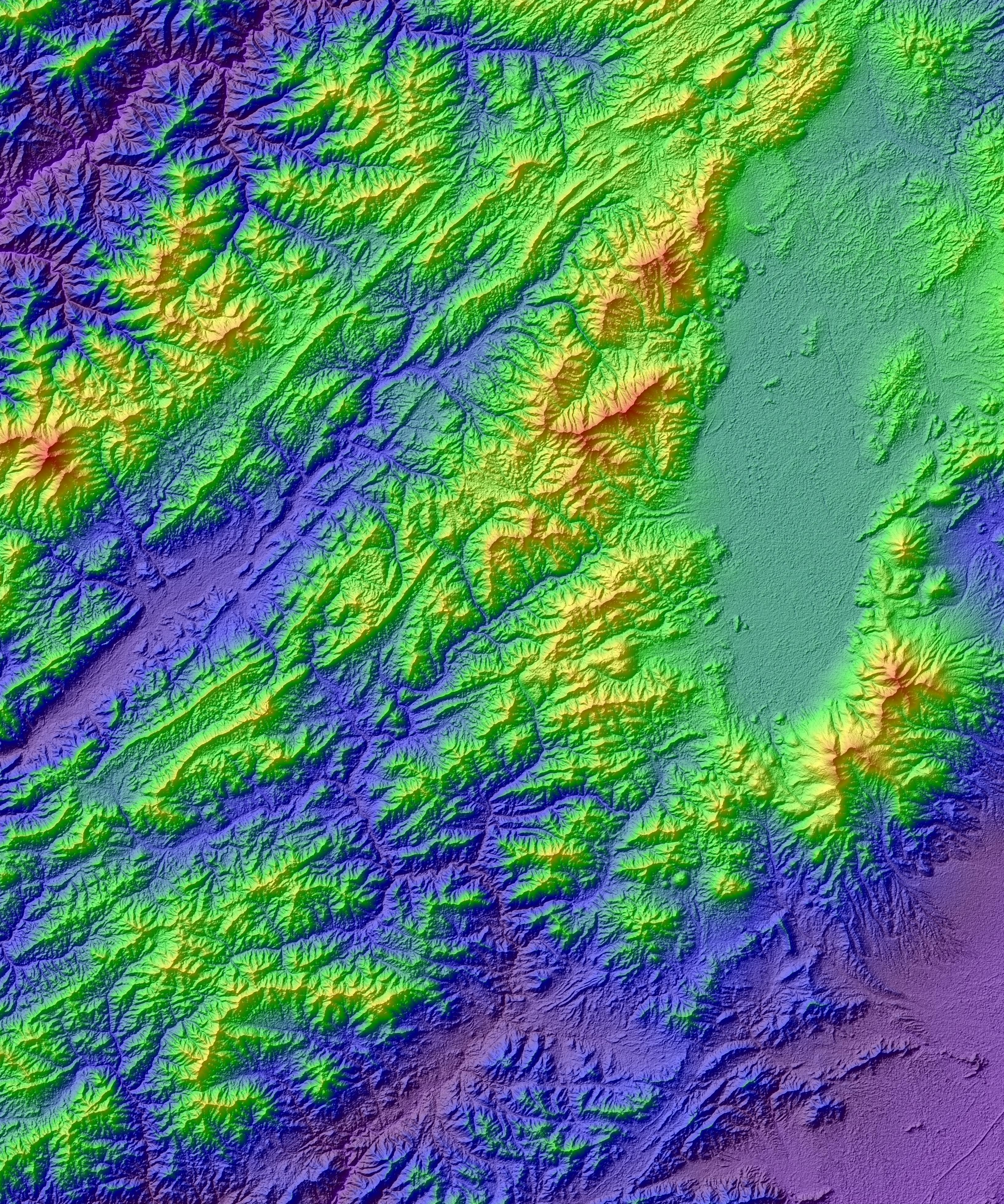 Район вулканической группы Дахт-и-Навар. Снимки спутника Терра, снятые радиометрический прибором японского зонда Aster